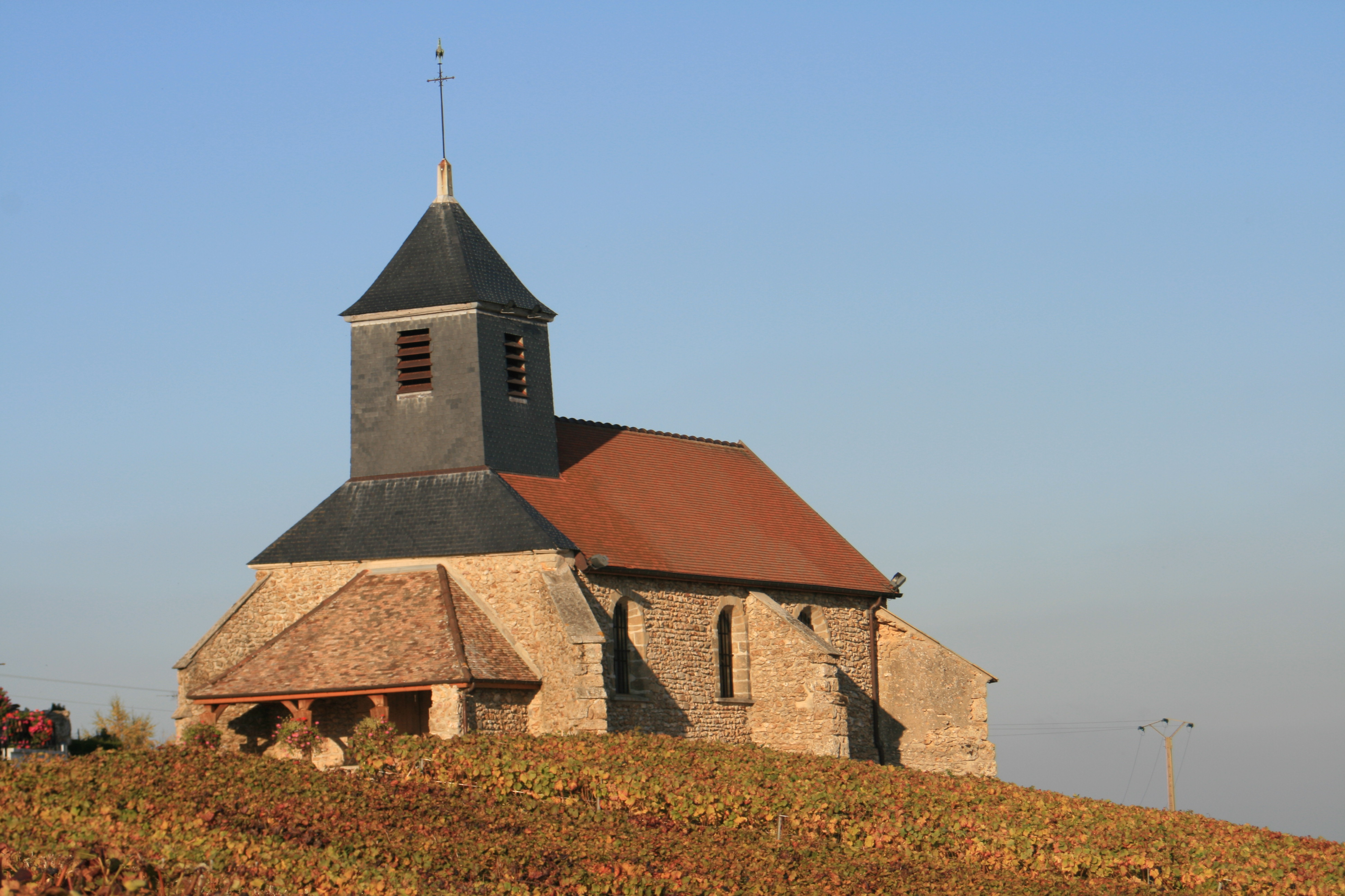 Mutigny's church (16th century)